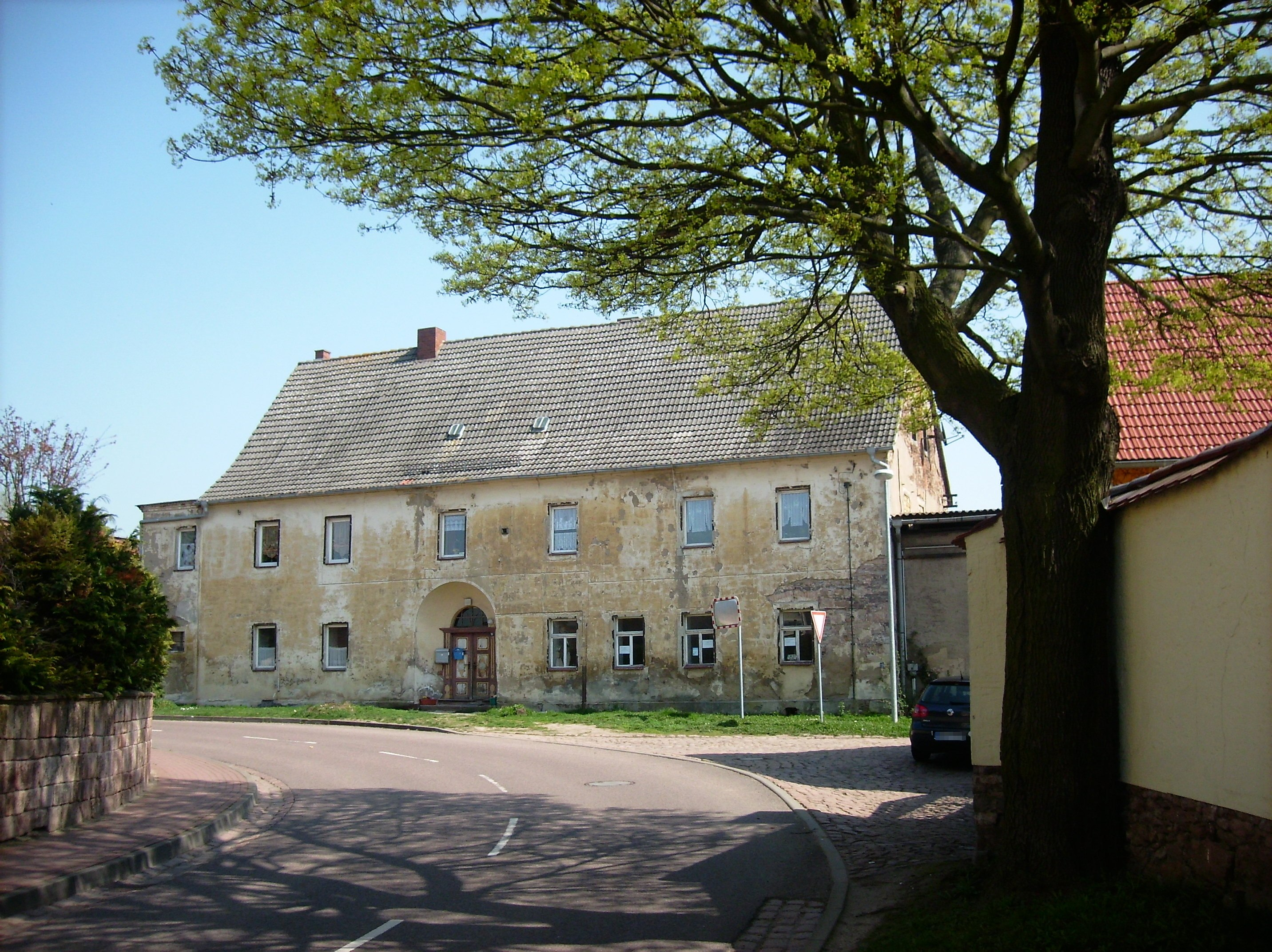 House at Hallesche Strasse in Neutz (Wettin-Löbejün, district of Saalekreis, Saxony-Anhalt)